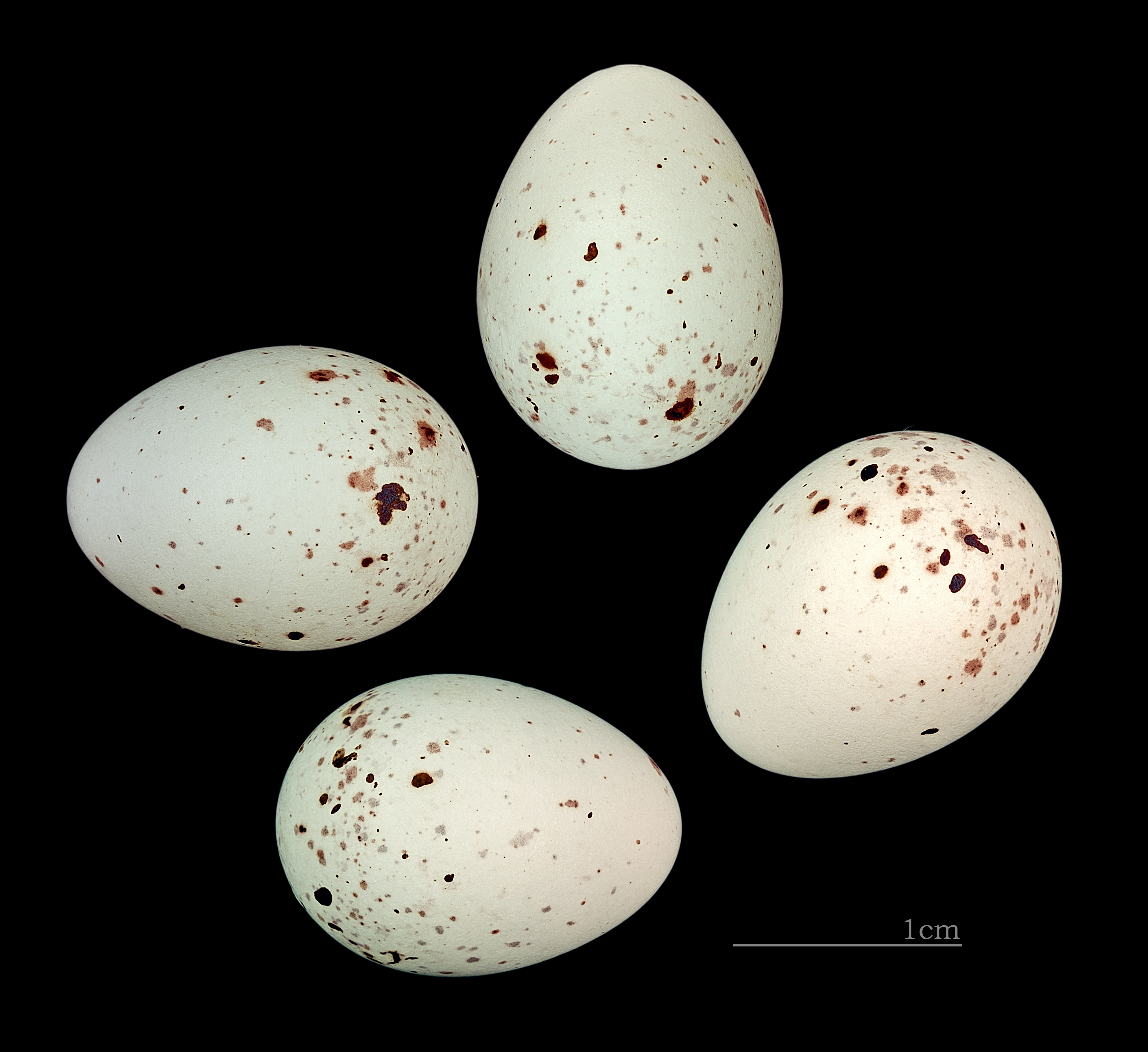 Egg of Common Linnet. Collection of Jacques Perrin de Brichambaut.